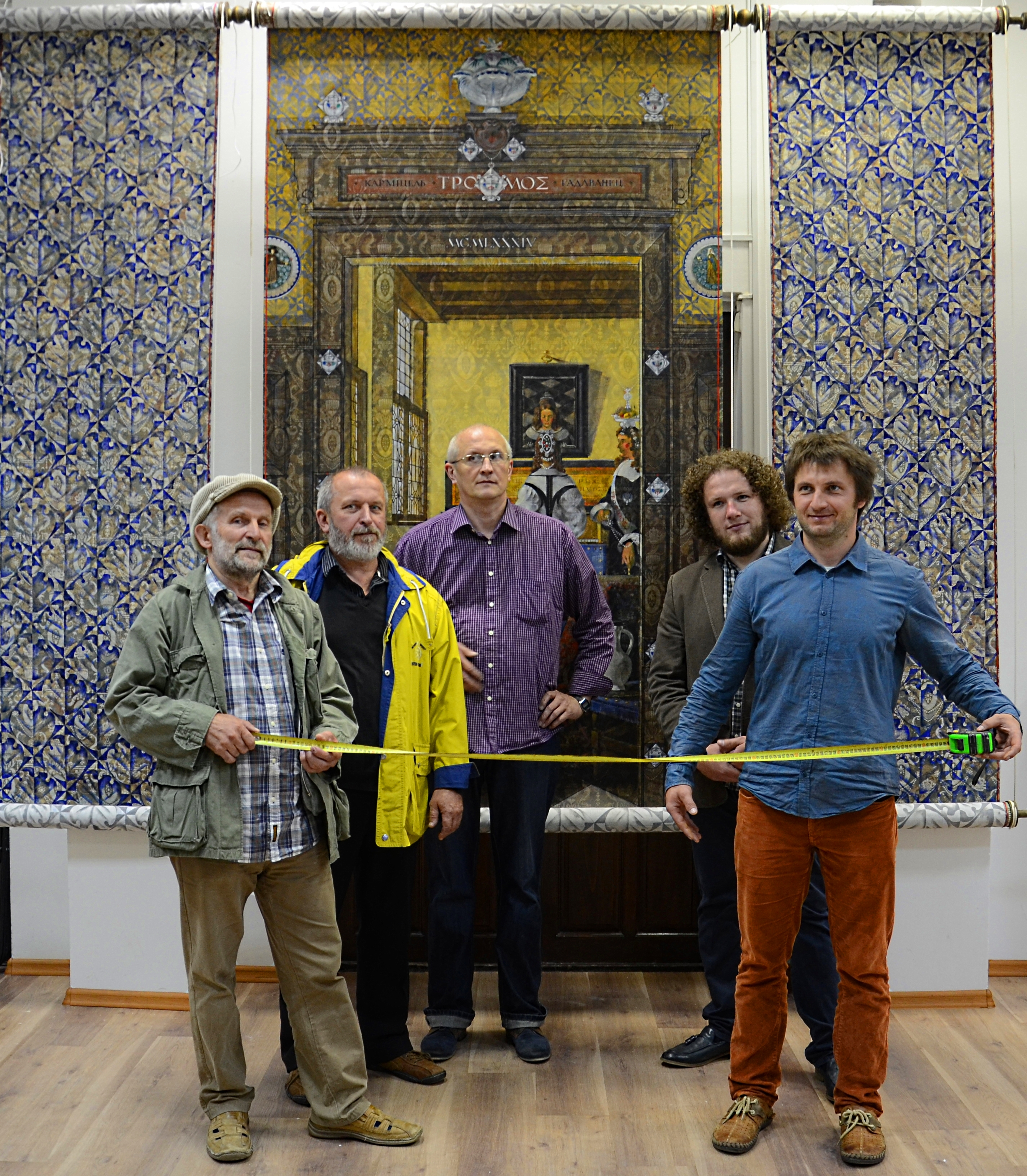 Creative Workshop "Bastalia." The "Dialogue of Eras. Interpretation." Gallery Leonid Shchemelev in Minsk. September 2014.